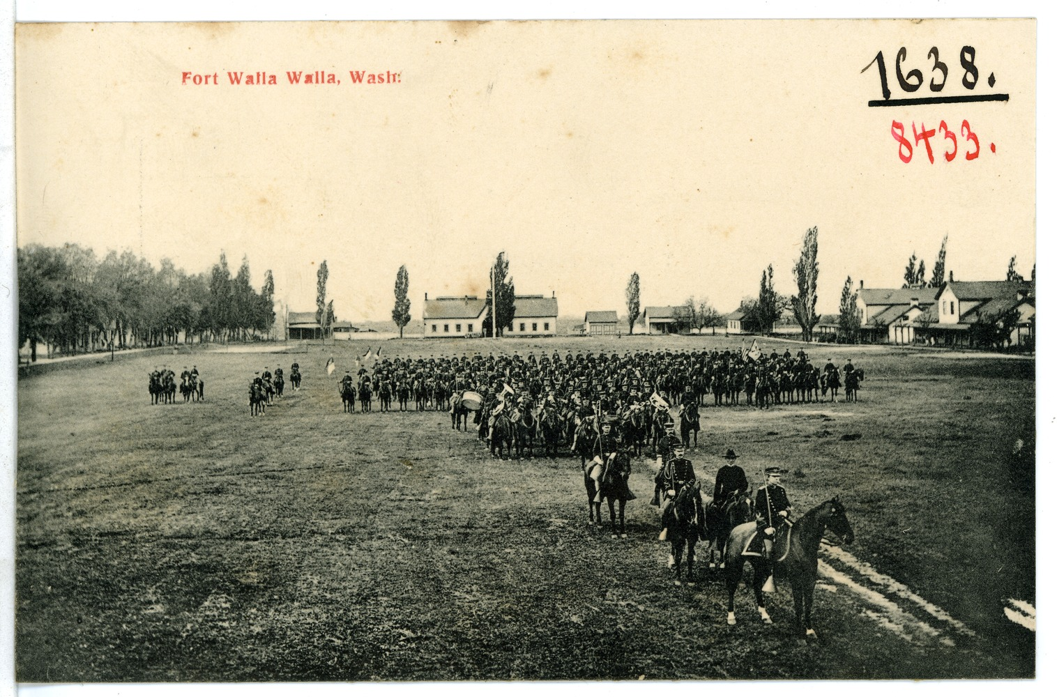 This postcard is from publisher Brück & Sohn in Meißen ( This postcard has a unique number 08433 and is available in a higher resolution at the publisher. This images was uploaded in a cooperation project between Wikipedians and the publisher.